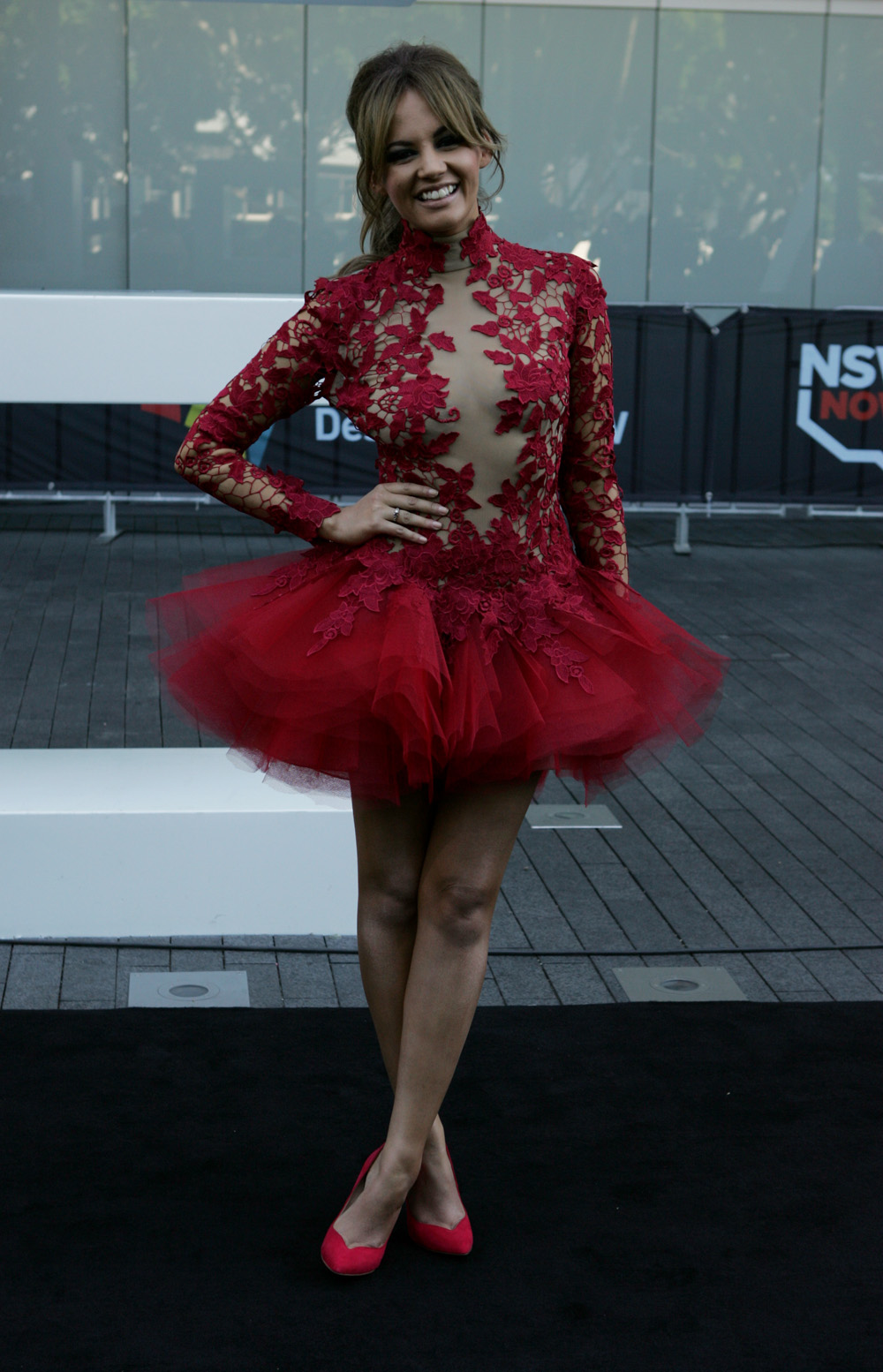 Aria Awards 2013 in Sydney Australia